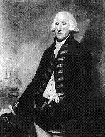 Samuel Hood, 1st Viscount Hood - Project Gutenberg eText 16914